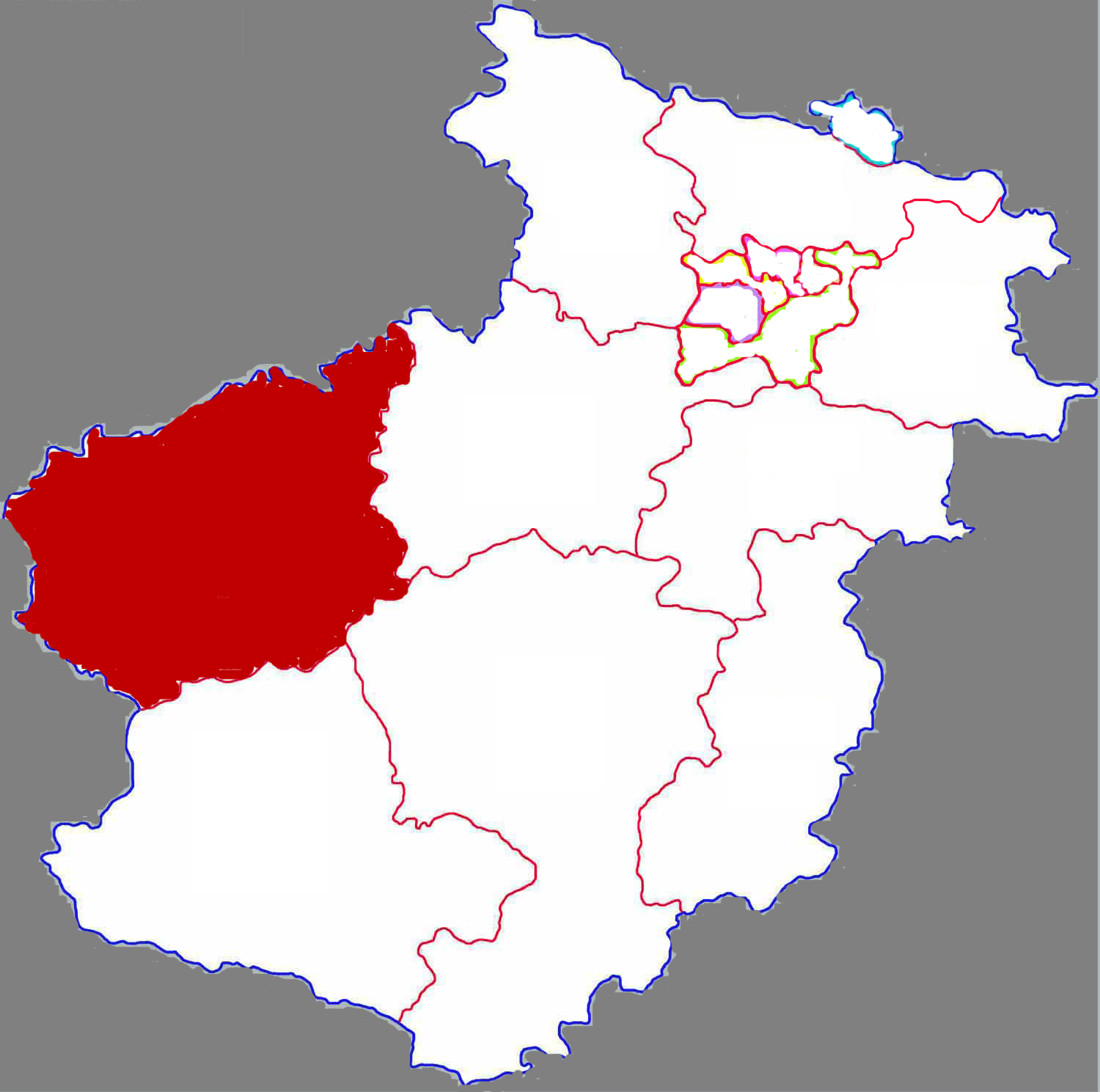 Location of Luoning county in Luoyang city, China